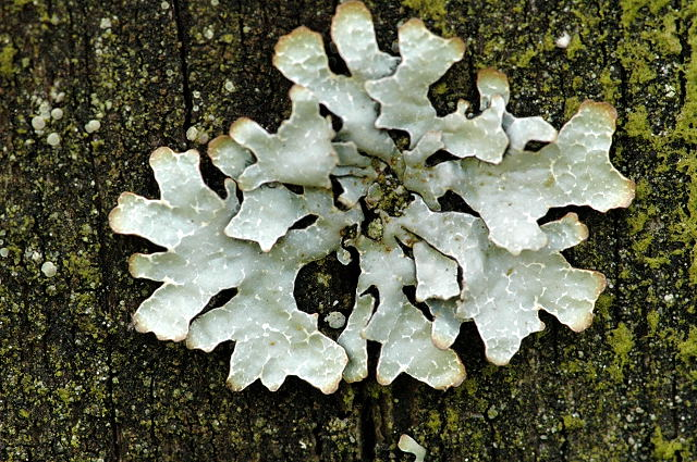 Parmelia sulcata from Commanster, Belgium. If you think this is a different taxon, please contact James Lindsey.